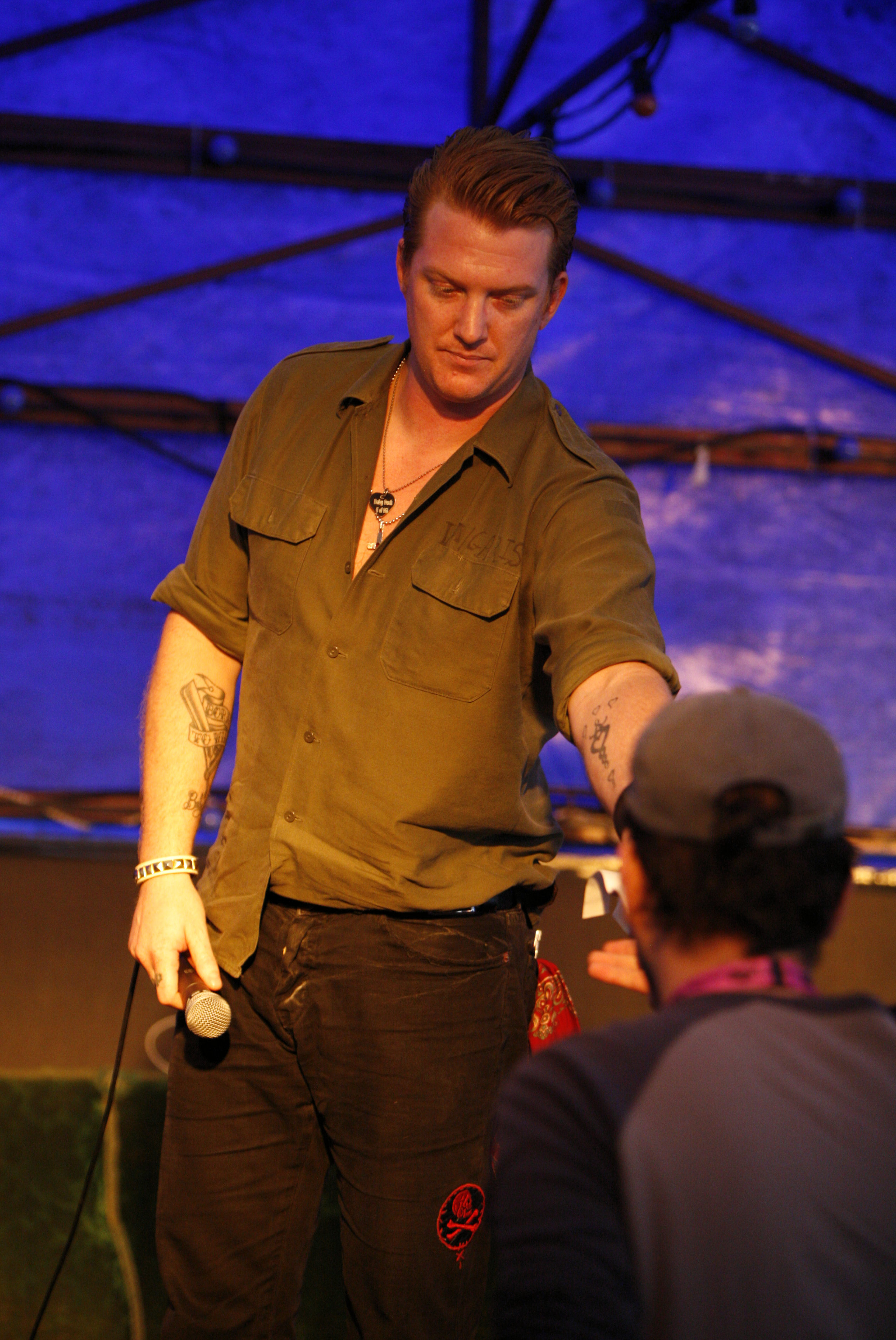 Josh Homme at the Eurockéennes of 2007